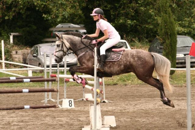 Meije du Garon, Poney Français de Selle mare jumping